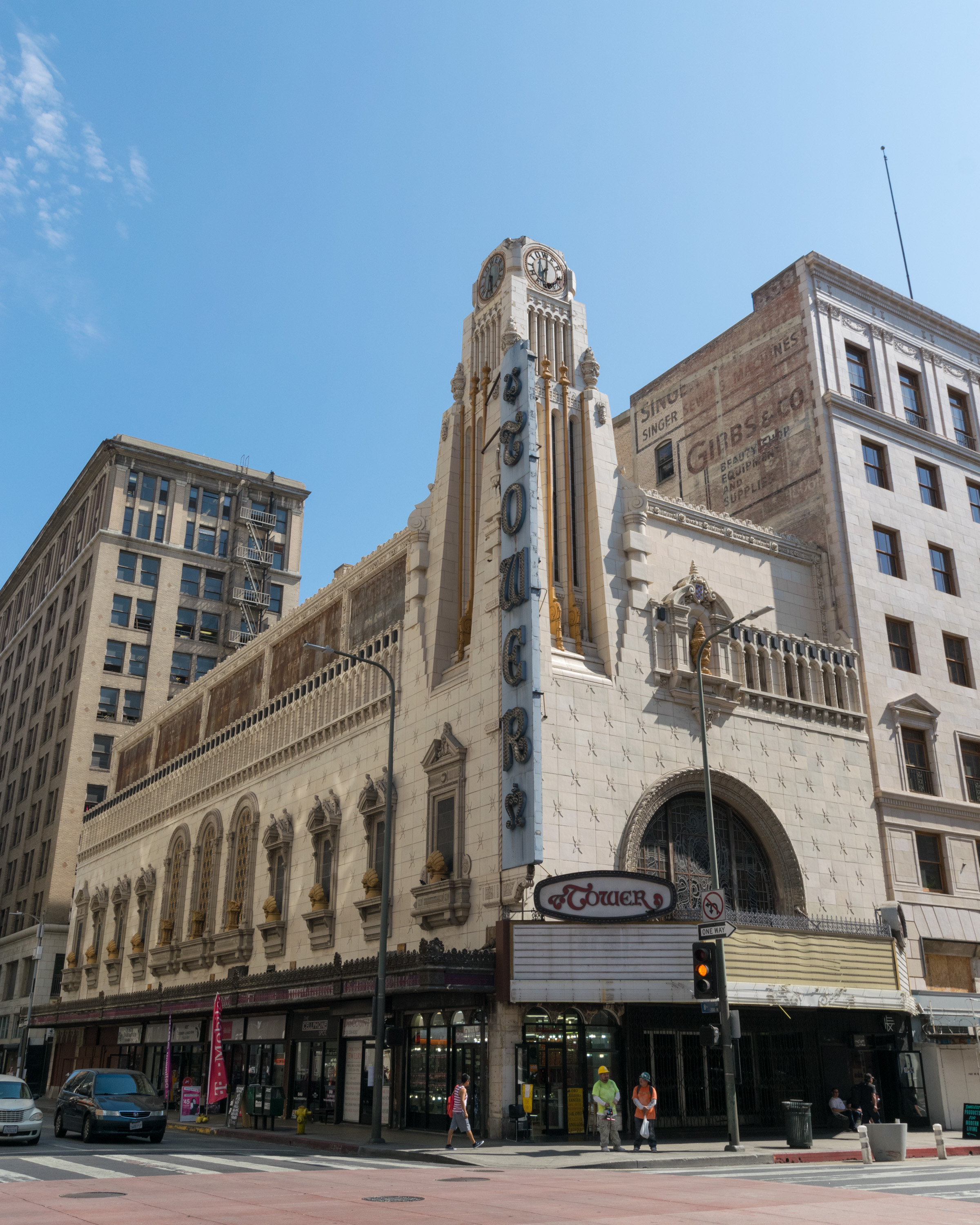 Tower Theatre, Los Angeles.